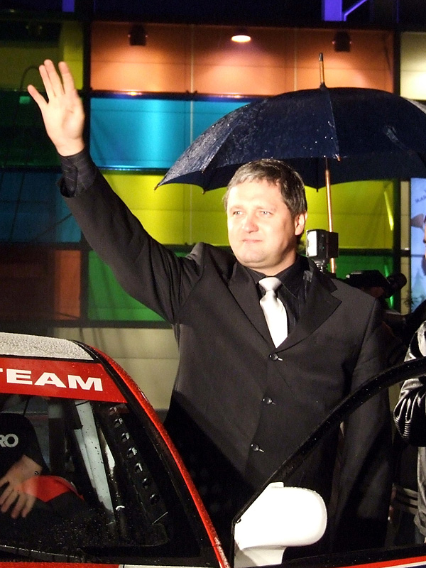 Saulius Girdauskas. Lithuanian rally driver.